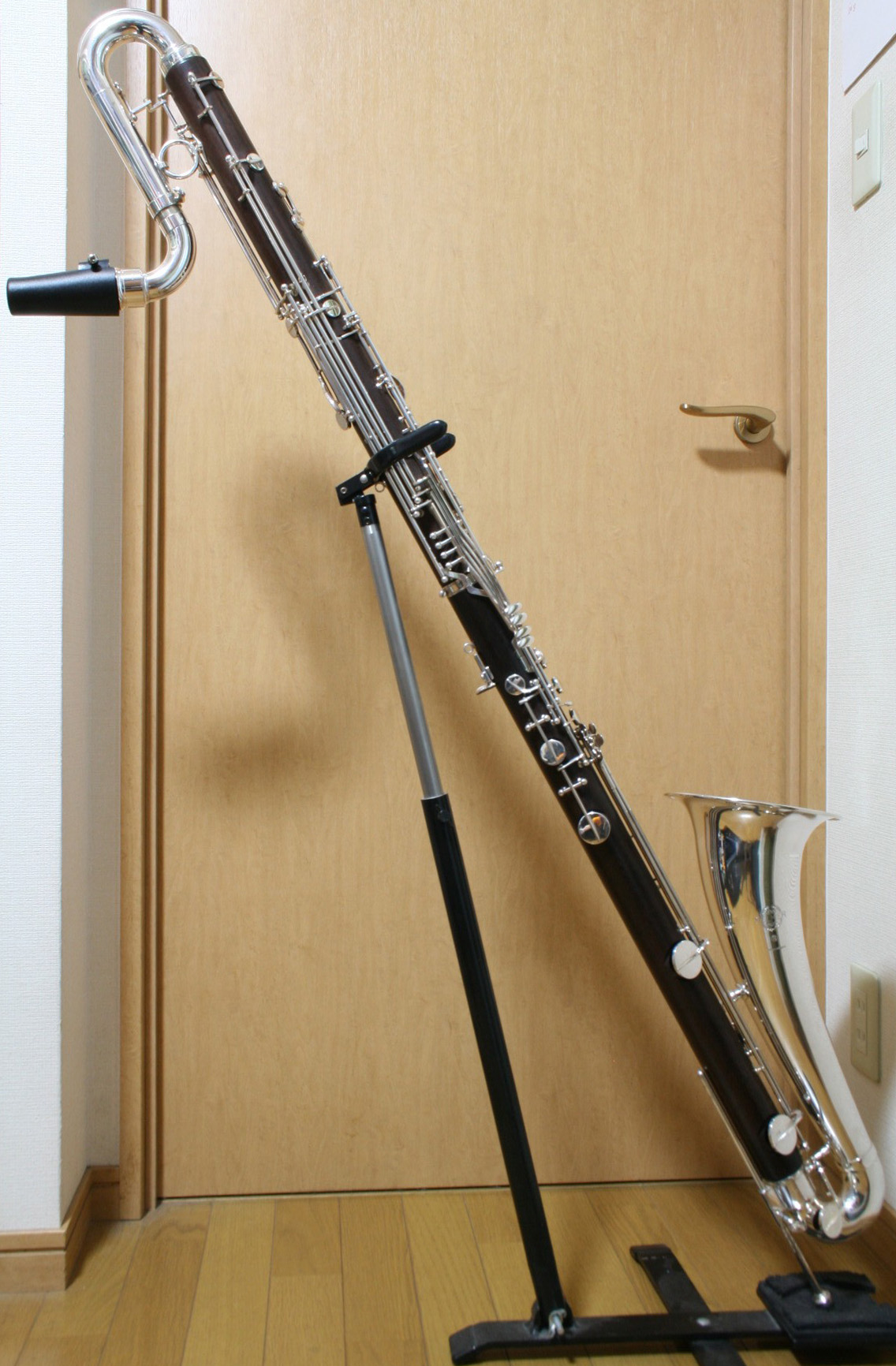 Selmer Paris contra-alto clarinet, made of rosewood, circa 2000, serial# N0++++